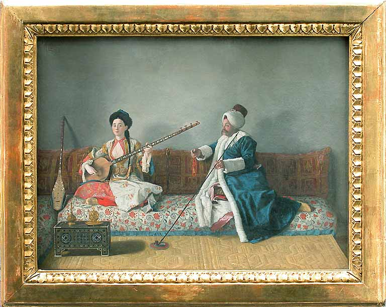 "Monsieur Levett and Mademoiselle Glavani in Turkish costume," oil on canvas, painted by the Swiss-French artist Jean-Etienne Liotard. Painted at Constantinople circa 1740, the work shows English merchant Francis Levett, of the Levant Company, with his friend Miss Glavani, in the dress favored by Liotard in his works. Courtesy of the Louvre Museum, Paris.